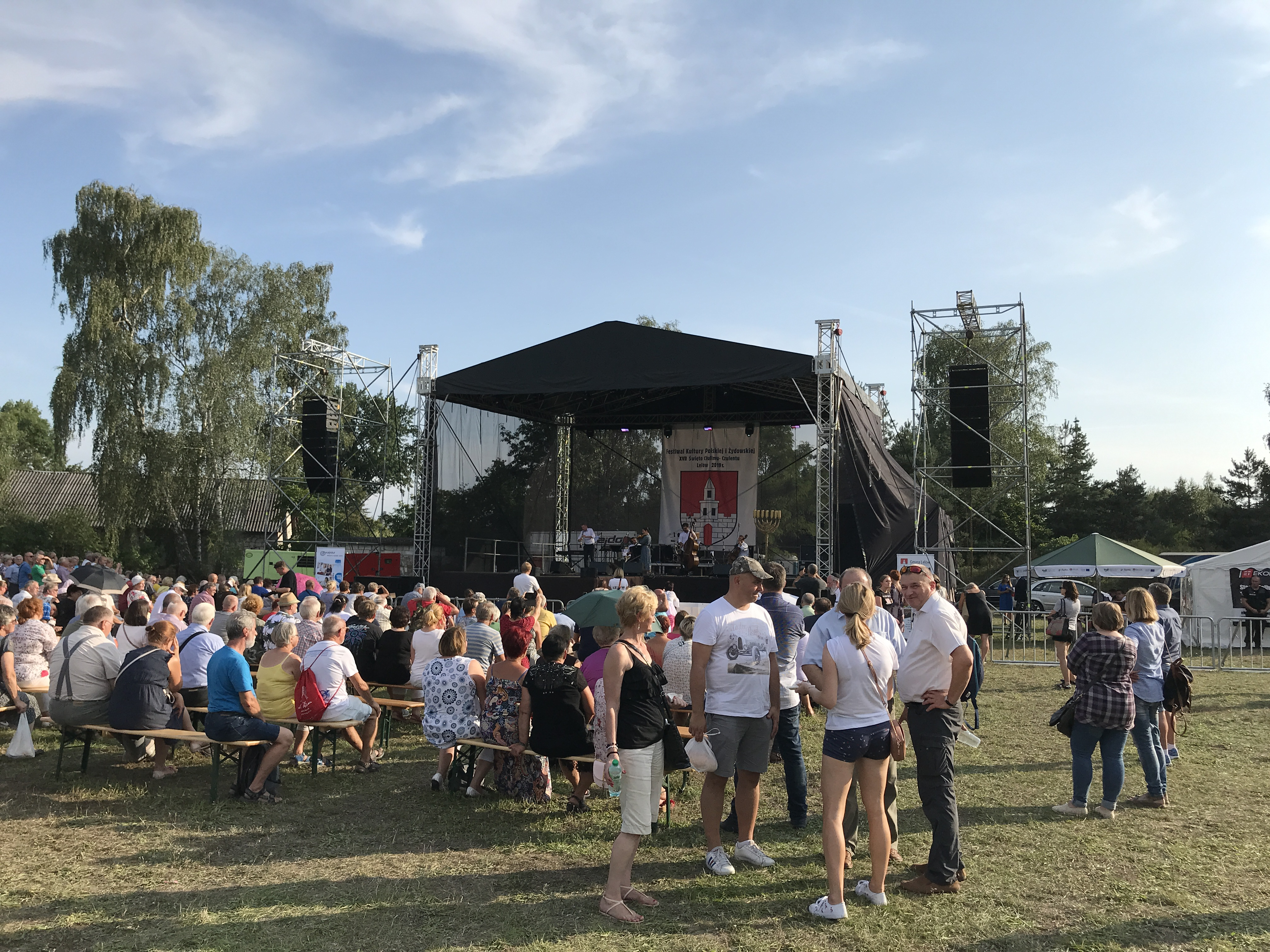 XVII Polish and Jewish Culture Festival in Lelów